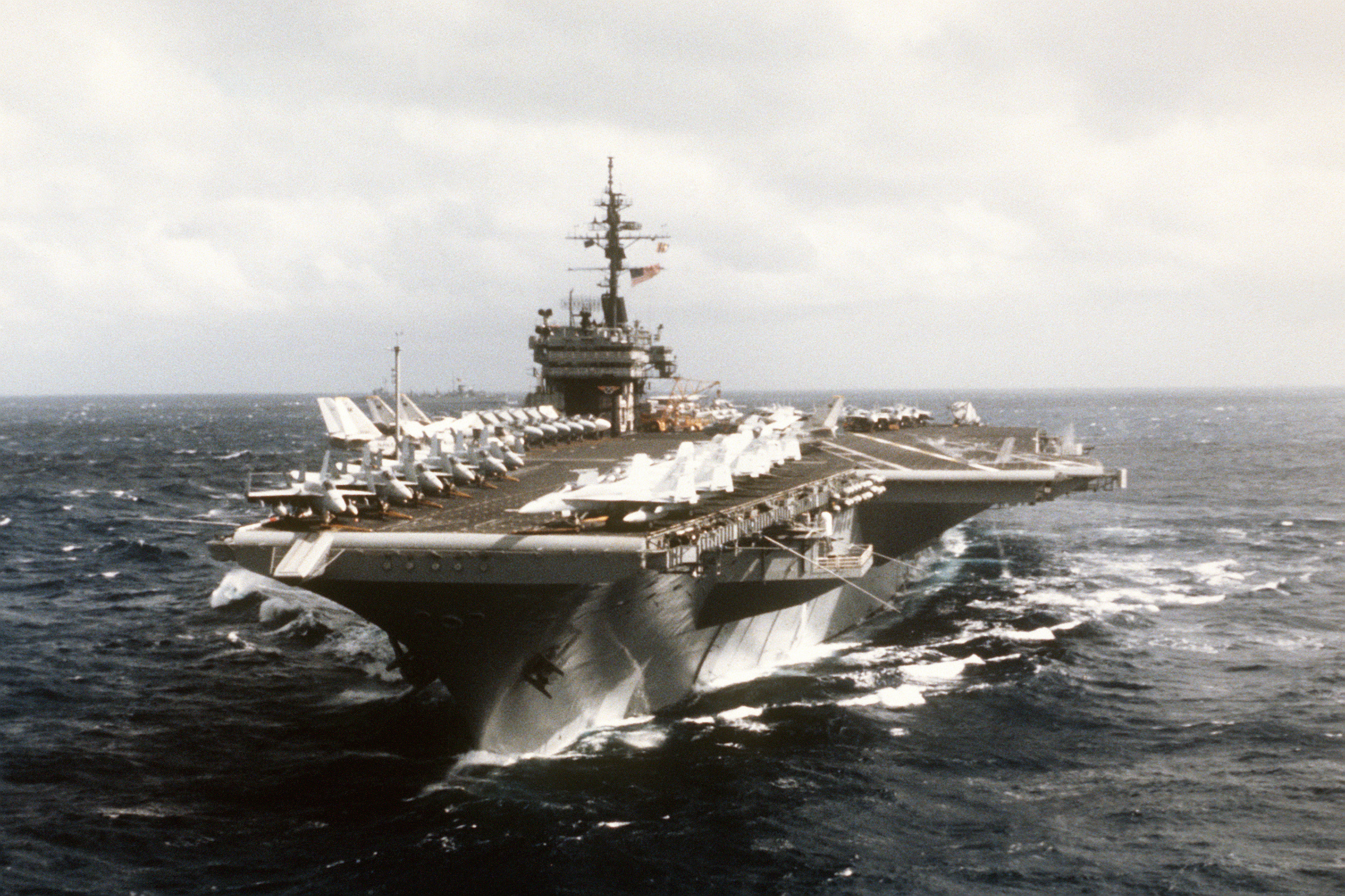 A port bow view of the aircraft carrier USS CONSTELLATION (CV-64) underway.